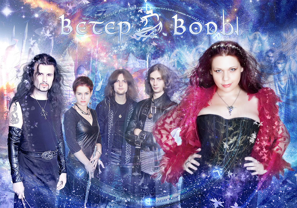 Picture for article about russian folk-rock band "Water Wind".